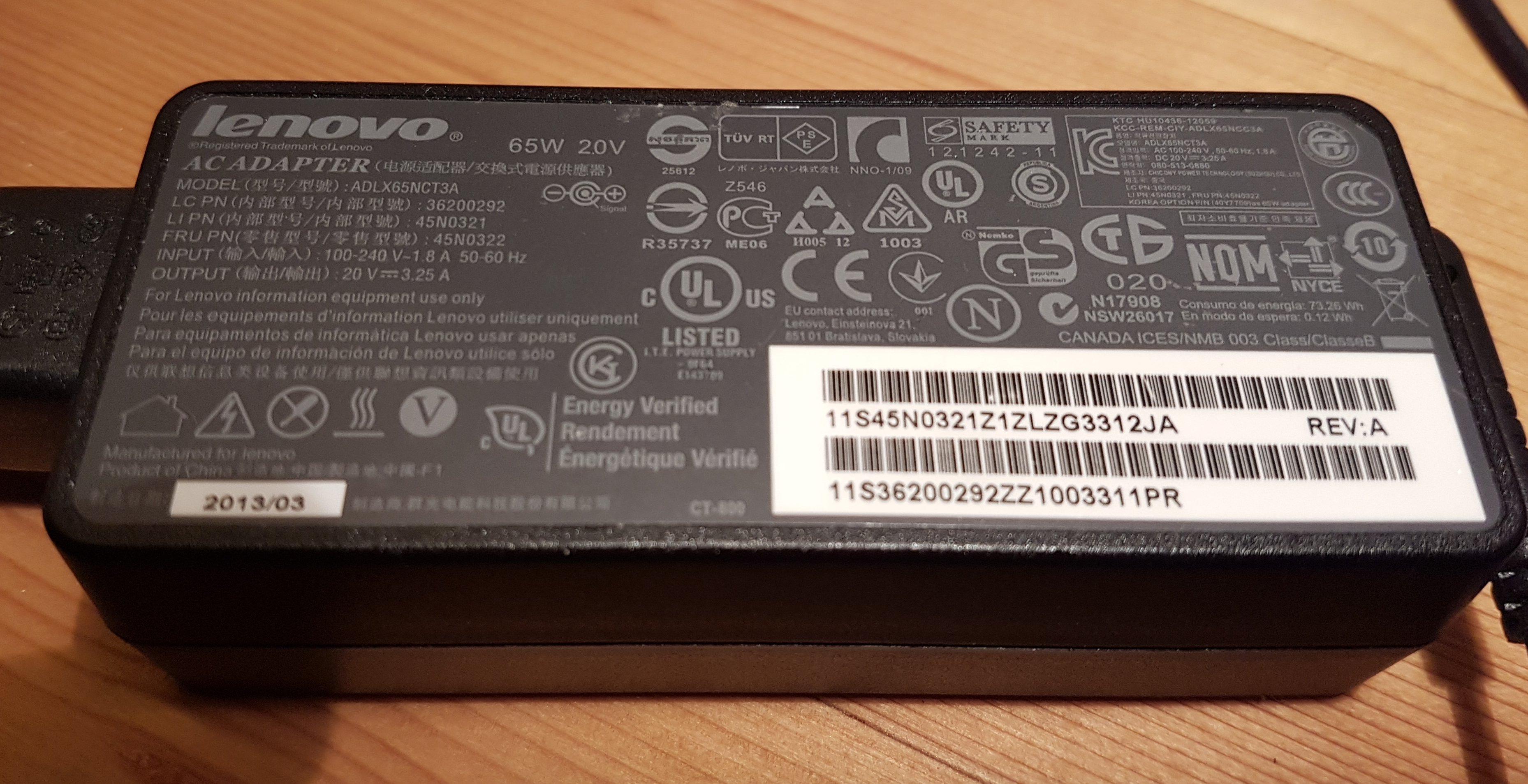 Lenovo Power Adapter AC 65W 20V